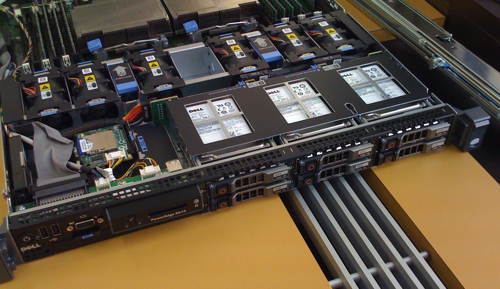 Dell PowerEdge R610 Server. Cropped.